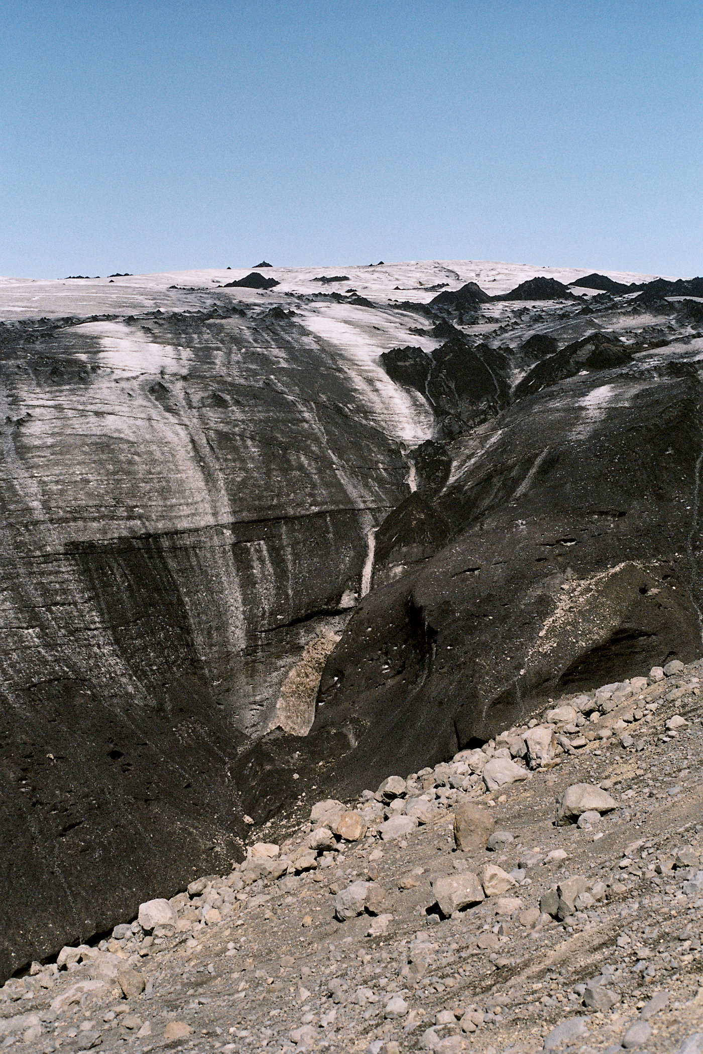 this is a glacier. Can't really remember what glacier it was, maybe it was Vatnajökull. taken by me , canon SLR.